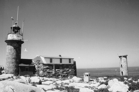 Matinicus Rock Lighthouse, Maine, USA c1980